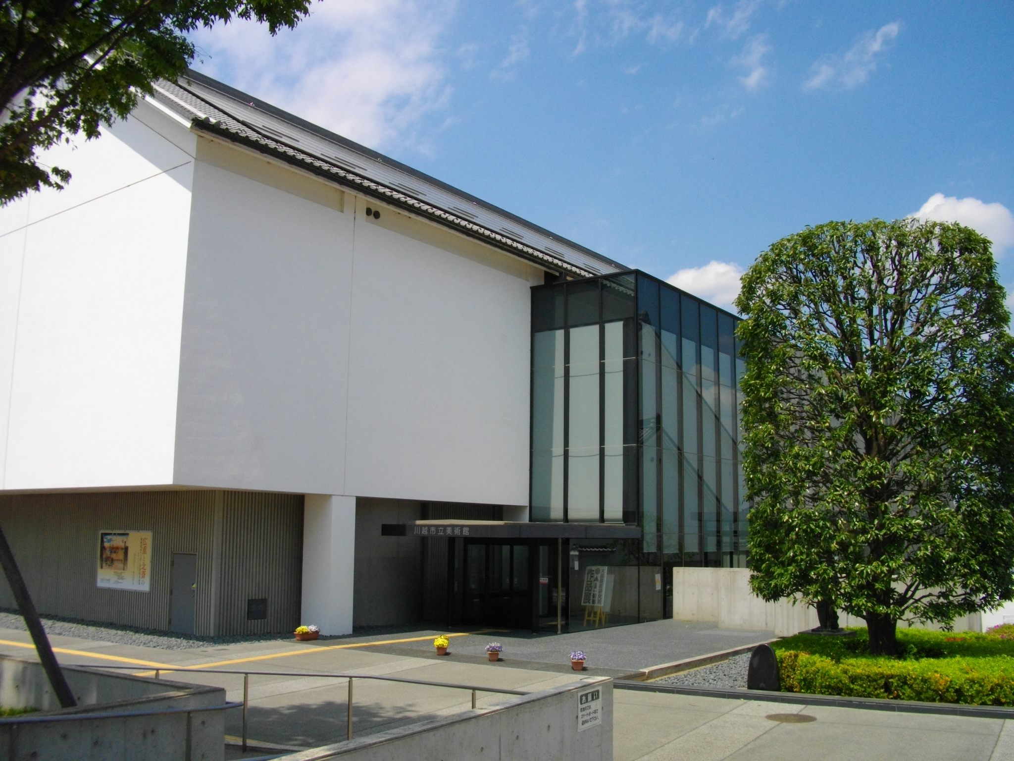 Kawagoe City Art Museum